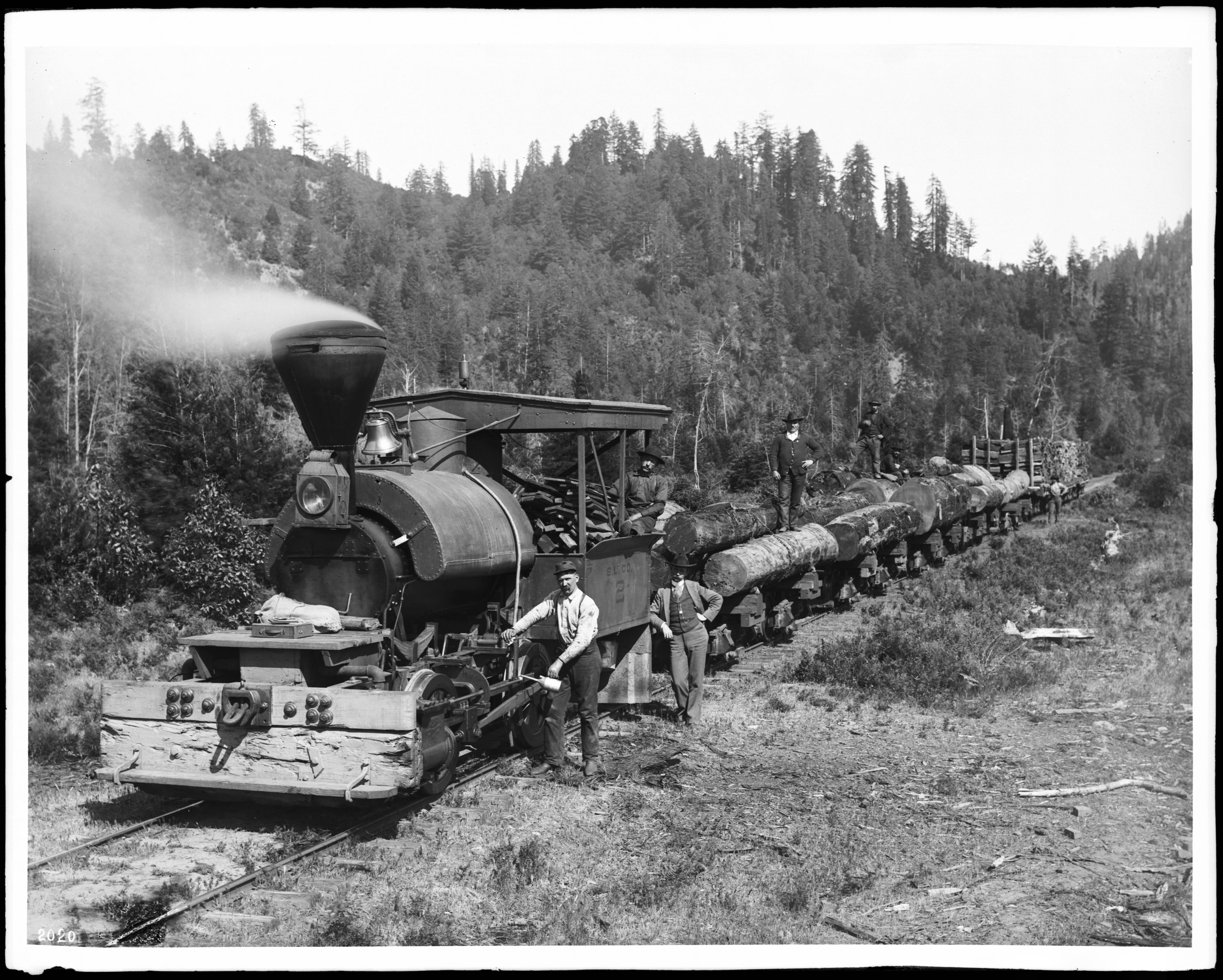 Logging train loaded with logs, ca.1900 Photograph of a logging train loaded with logs for the mill sitting in a clearing in a mountain forest, ca.1900. The engine is hauling at least 6 cars. About a half a dozen men are standing next to or on the train. Steam rises from the boiler of the engine. The fuel box reads "S.L. Co. 2" on the side. Call number: CHS-2020 Filename: CHS-2020 Coverage date: circa 1900 Part of collection: California Historical Society Collection, 1860-1960 Format: glass plate negatives Type: images Part of subcollection: Title Insurance and Trust, and C.C. Pierce Photography Collection, 1860-1960 Repository name: USC Libraries Special Collections Accession number: 2020 Microfiche number: 1-108-39 Archival file: chs_Volume77/CHS-2020.tiff Repository address: Doheny Memorial Library, Los Angeles, CA 90089-0189 Subject (adlf): railroad features Geographic subject (country): USA Format (aacr2): 2 photographs : glass photonegative, photoprint, b&w ; 21 x 26 cm. Rights: Digitally reproduced by the USC Digital Library; From the California Historical Society Collection at the University of Southern California Project: USC Repository Contributing entity: California Historical Society Date created: circa 1900 Publisher (of the digital version): University of Southern California. Libraries Format (aat): photographic prints; photographs Geographic subject (state): California Legacy record ID: chs-m12168; USC-1-1-1-12321 Access conditions: Send requests to address or e-mail given. Phone (213) 821-2366; fax (213) 740-2343. Subject (file heading): Industry -- Lumbering Subject (lcsh): Lumber; Forests and forestry; Wood products; Railroads